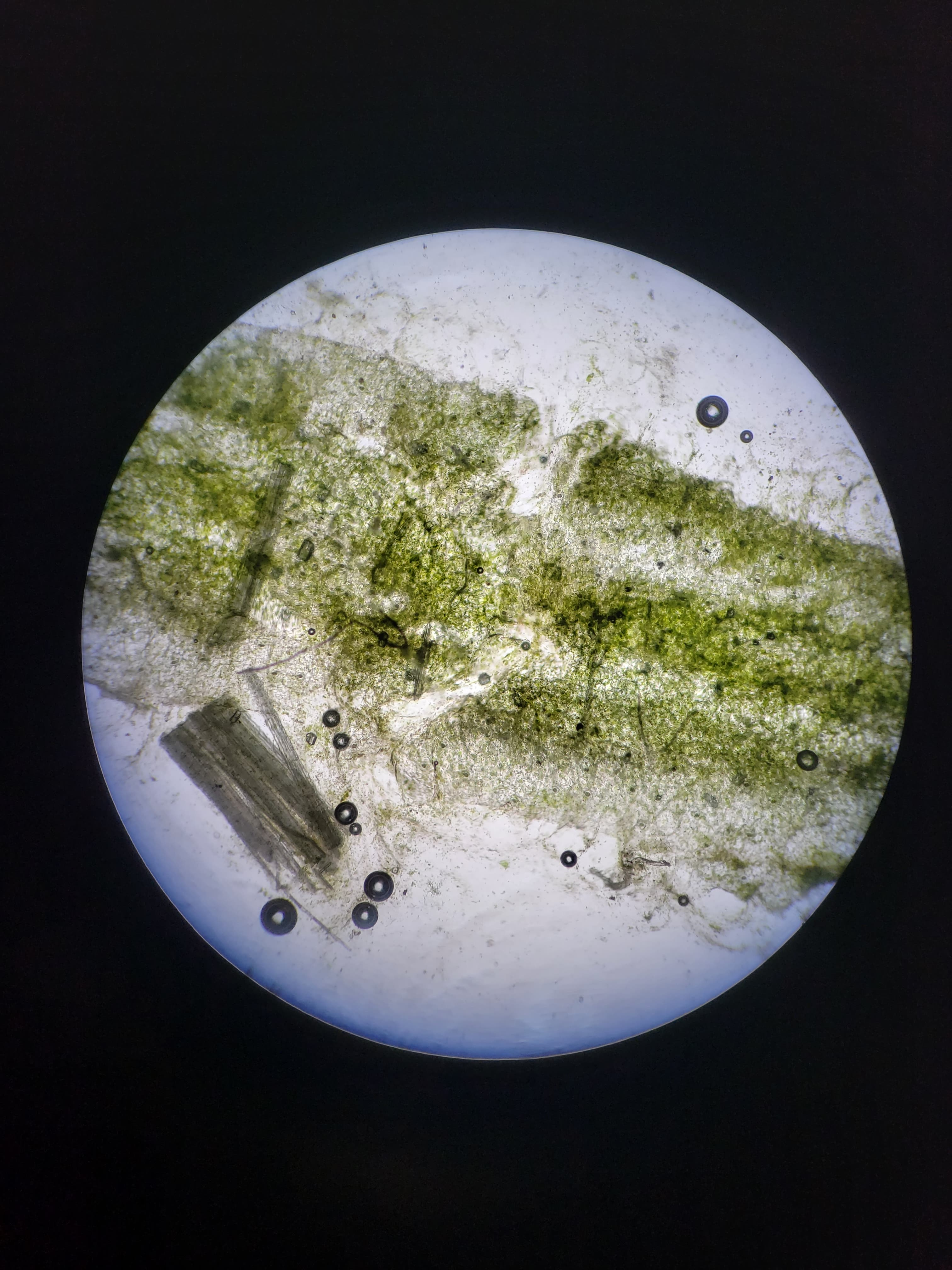 Epiphyllum oxypetalum Leaf Slide (Cross Section) under a microscope 10x